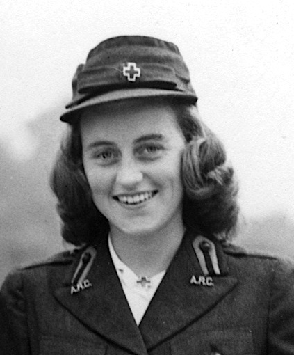 Lady Hartington (formerly Kathleen Kennedy) in London, wearing an American Red Cross uniform